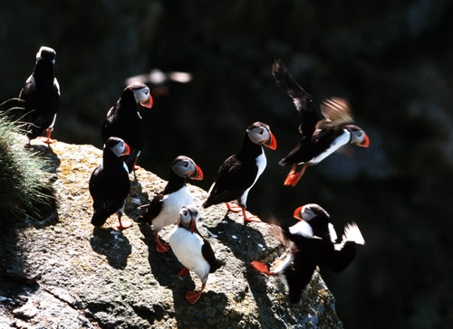 Atlantic puffin Fratercula arctica Image taken at Roest, Lofoten, Norway